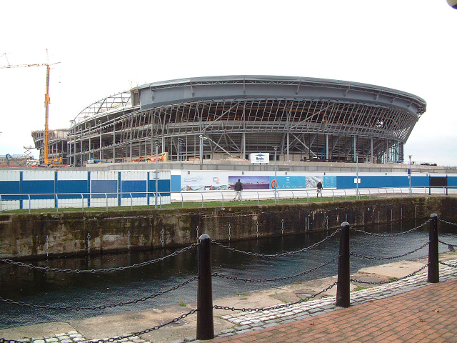 Echo Arena Liverpool, England, UK